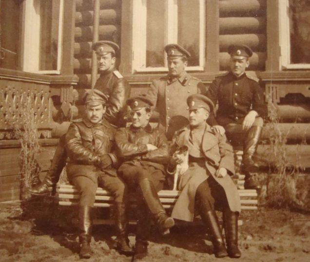 Officers of Krasnaya Gorka fort, who probably participated in antibolshevik uprising/ Names are unknownh